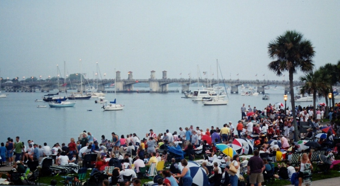 Mantanzas River with Bridge of Lions. People are gathering to watch fireworks on July 4th, 2002.